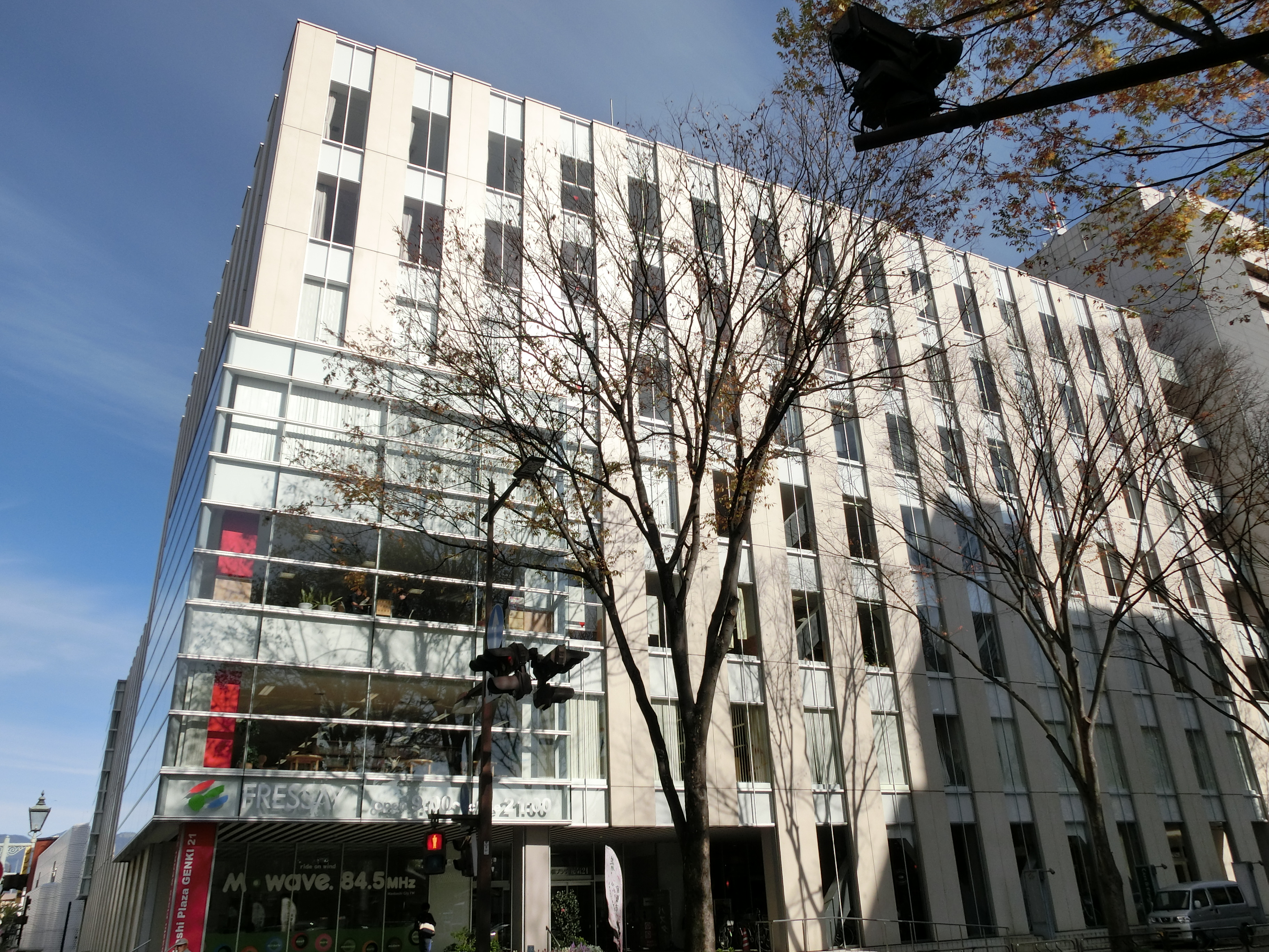 Maebashi Plaza Genki 21 building